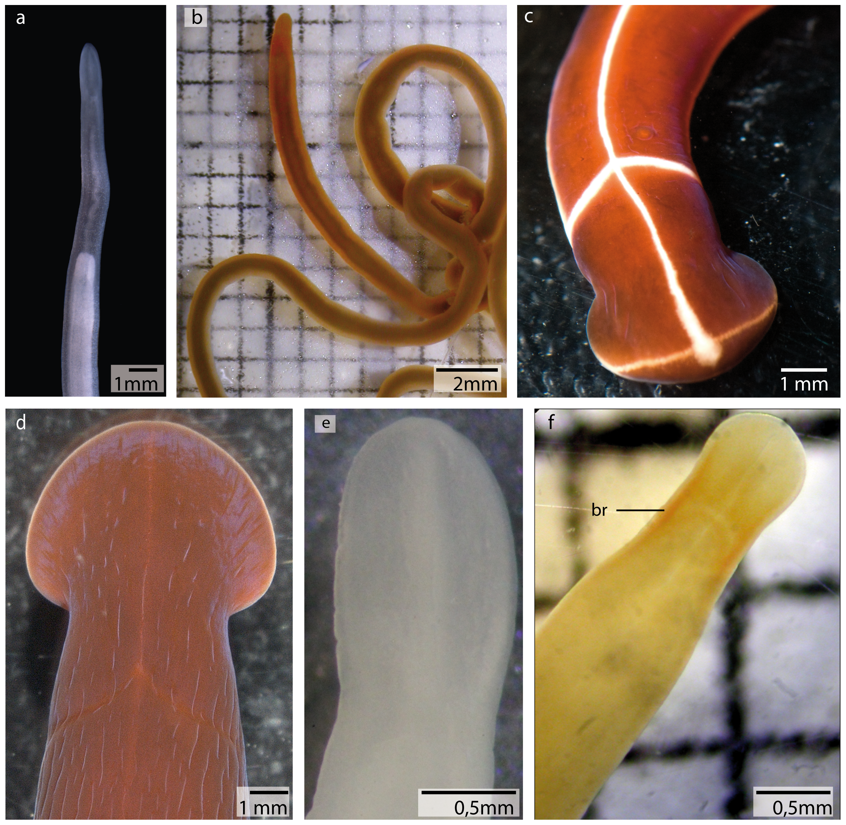 Living specimens of palaeonemerteans. br – brain. A – Procephalothrix filiformis B – Cephalothrix linearis C – Tubulanus superbus D – Tubulanus polymorphus E – Callinera grandis F – Carinina ochracea.